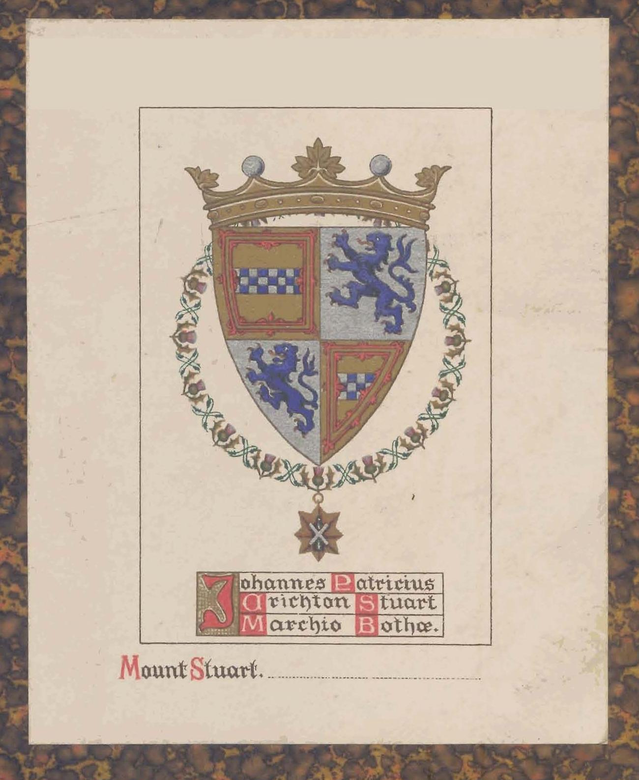 Ex-libris of John Patrick Crichton-Stuart